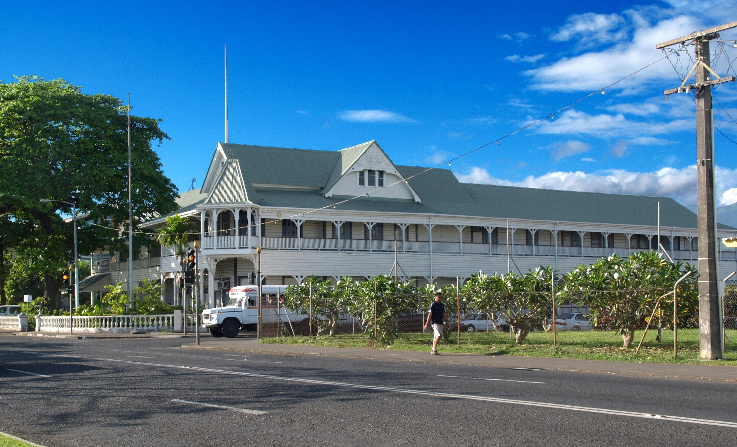 The Apia Courthouse just after the renovations and before the new police station was built